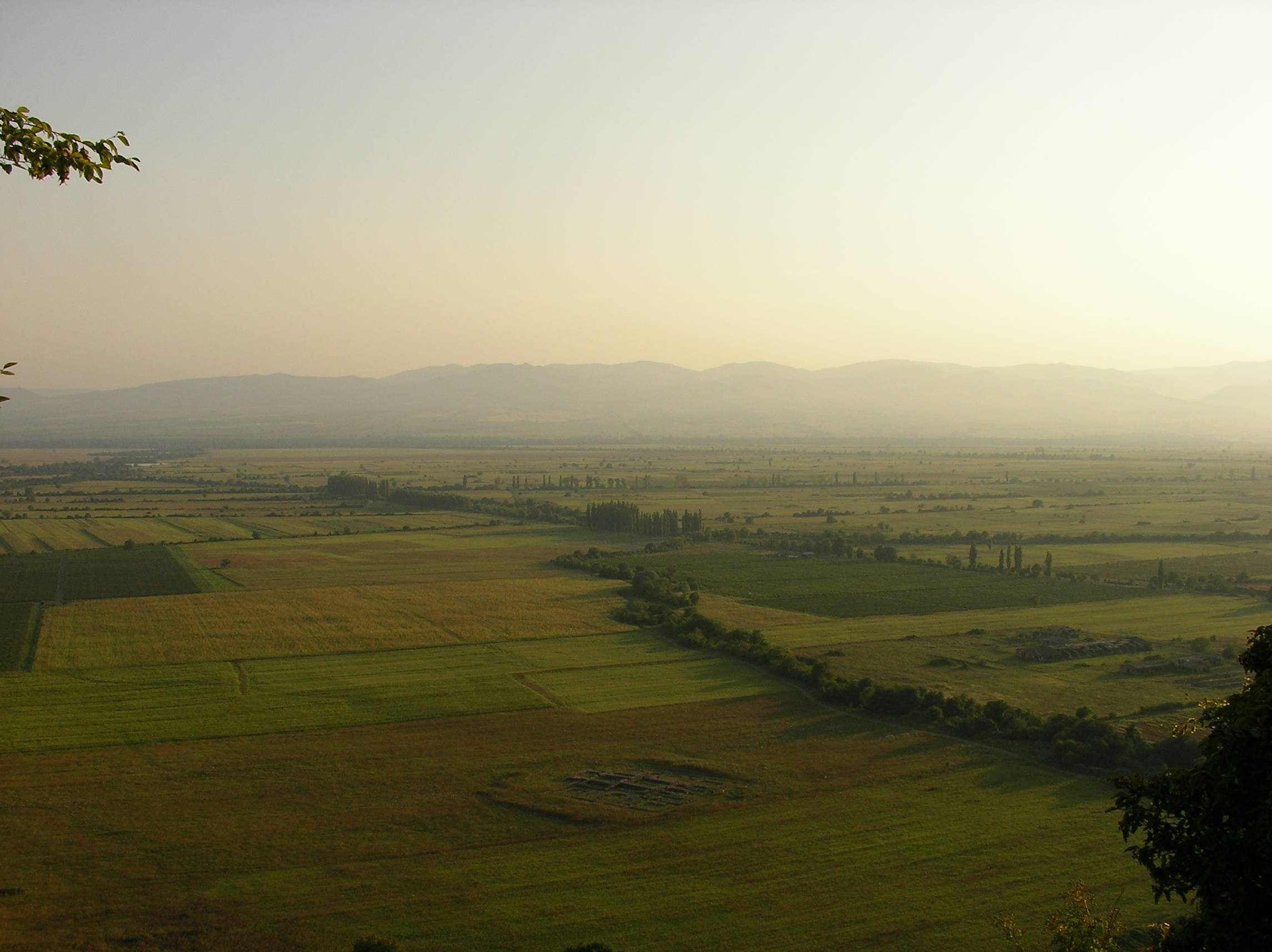 Alazan valley 3